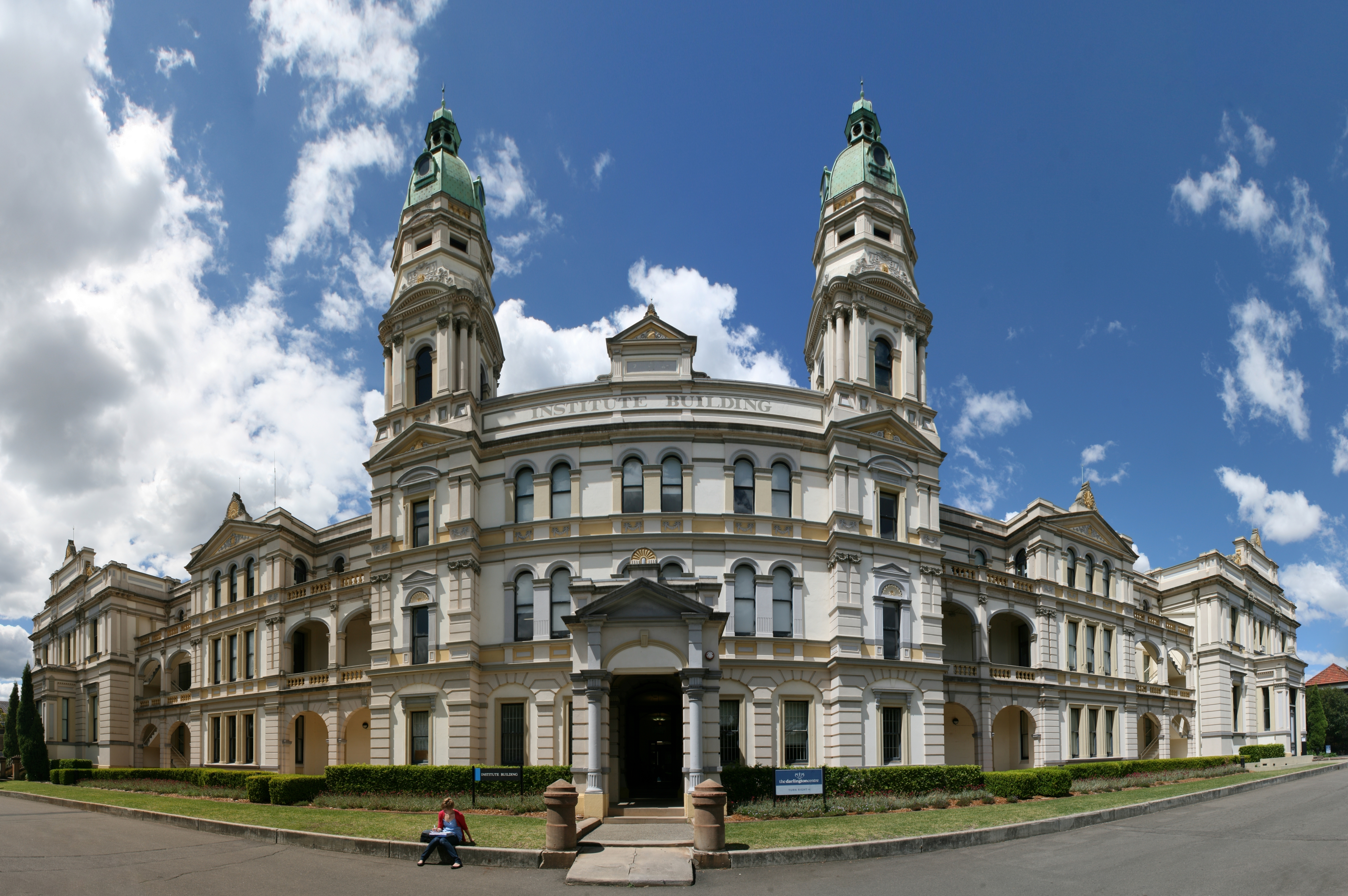 The Darlington Centre, located in the Institute Building at The University of Sydney.